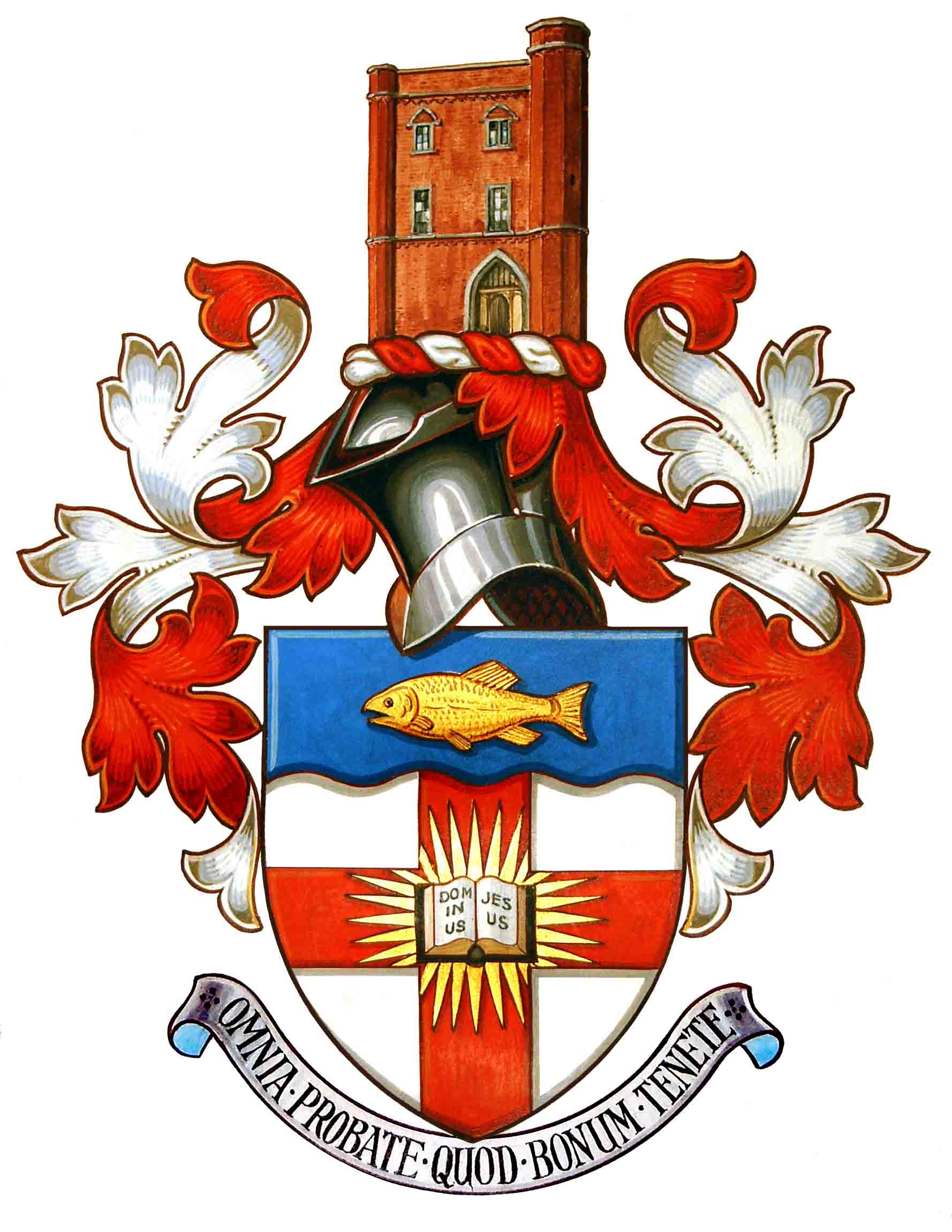 Heraldic Crest